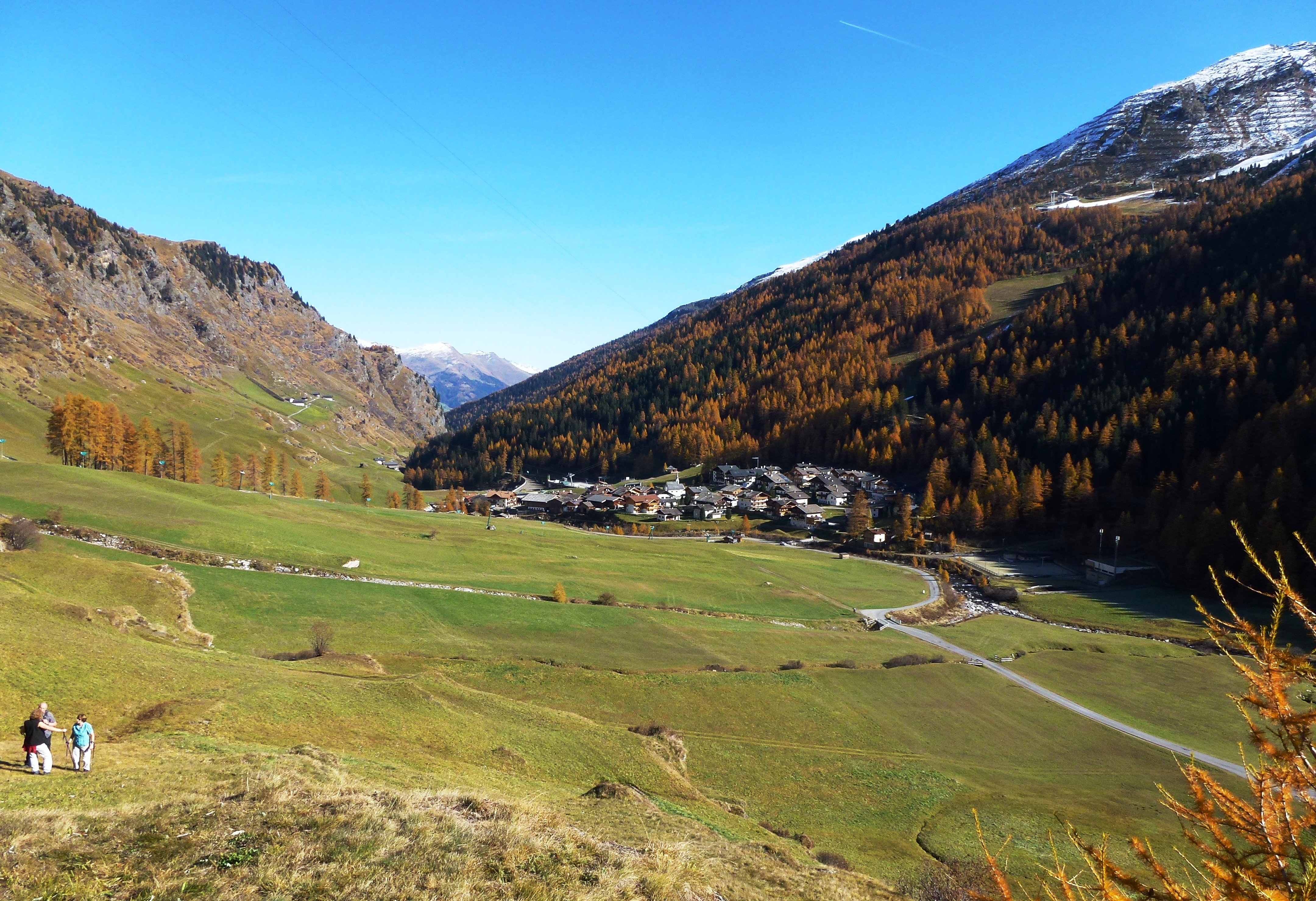 The Village Pfelders/Plan in the Italian Alps